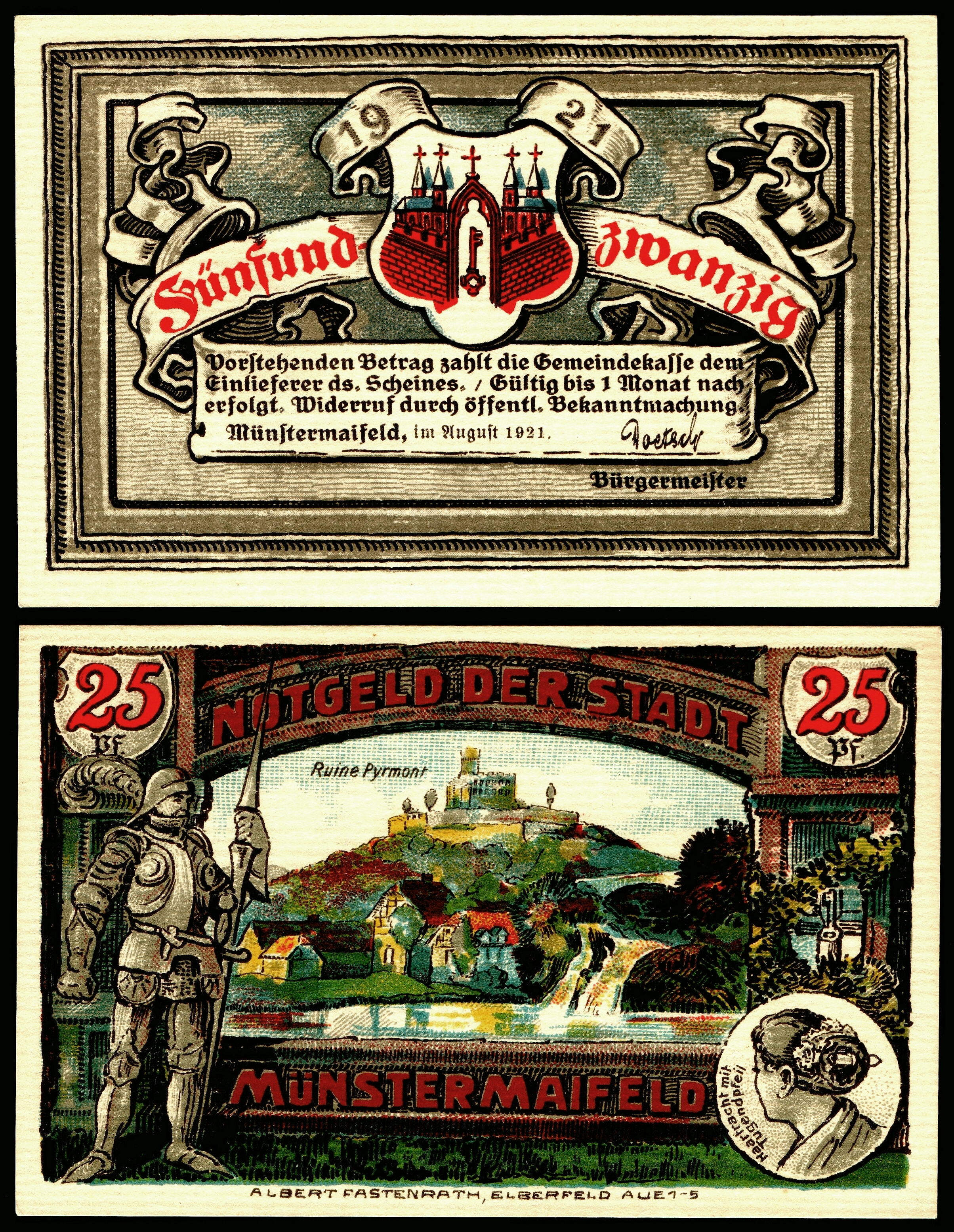 Notgeld banknote (German for "emergency money" or "necessity money"), 1921, 25 Pfennig, issued by the town of Münstermaifeld, Germany. RV: Pyrmont Castle: Size: 98 mm x 63 mm.